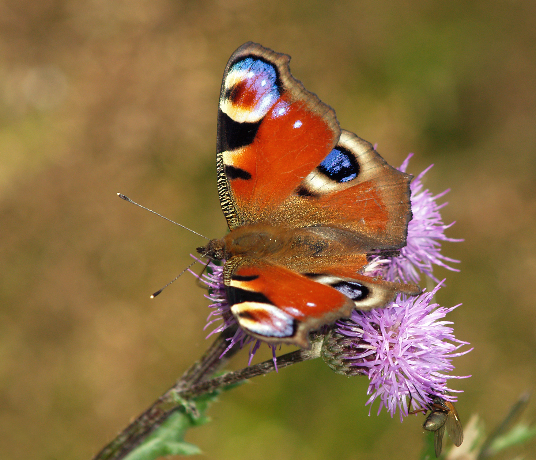 European Peacock (Inachis io), Chemnitz, Germany